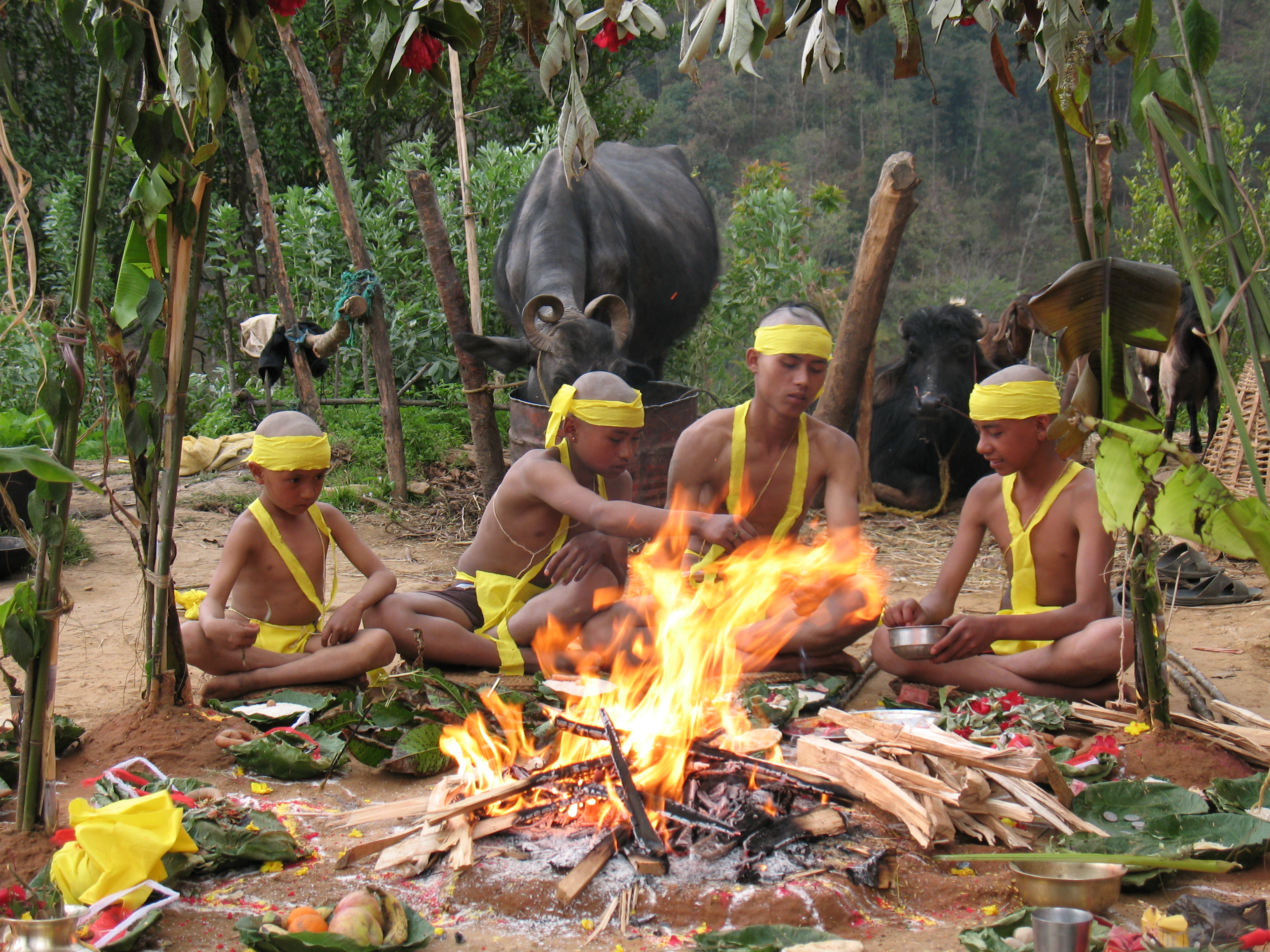 Bratabandha Pooja in Nepal.This ritual marks the entry into Hindu religion for Brahmin and Chhetri, also called Upanayanam. The sacred thread is received. The Homa-fire ist an religious practise during such ceremonies. Photo taken in Kalati-Bhumidada Village, Kavre-Palanchowk District, Bagmati Zone, Nepal.